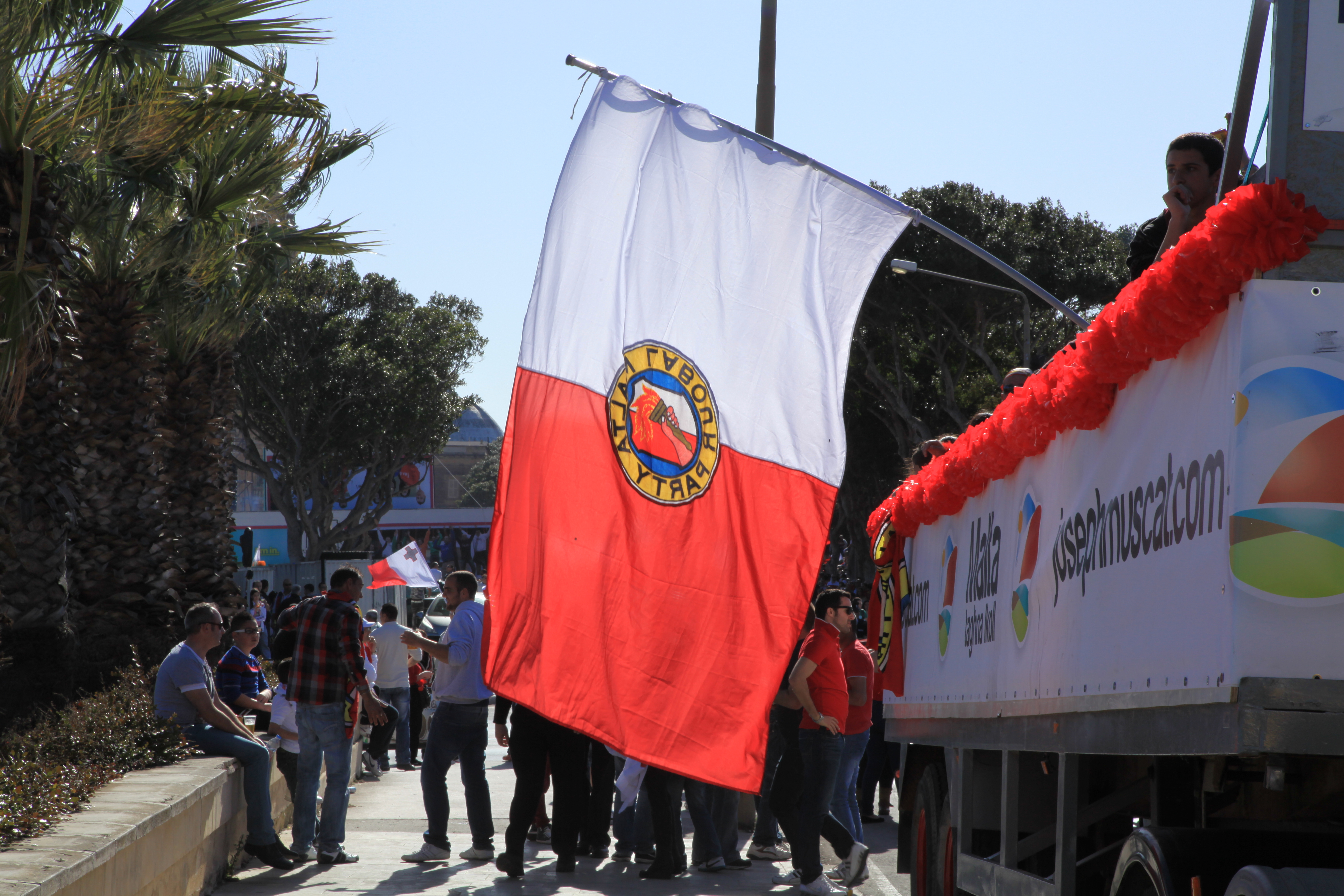 Election celebrations at the corner of Vjal-Re Dwardu VII in Floriana and Vjal Nelson in Valletta, Malta